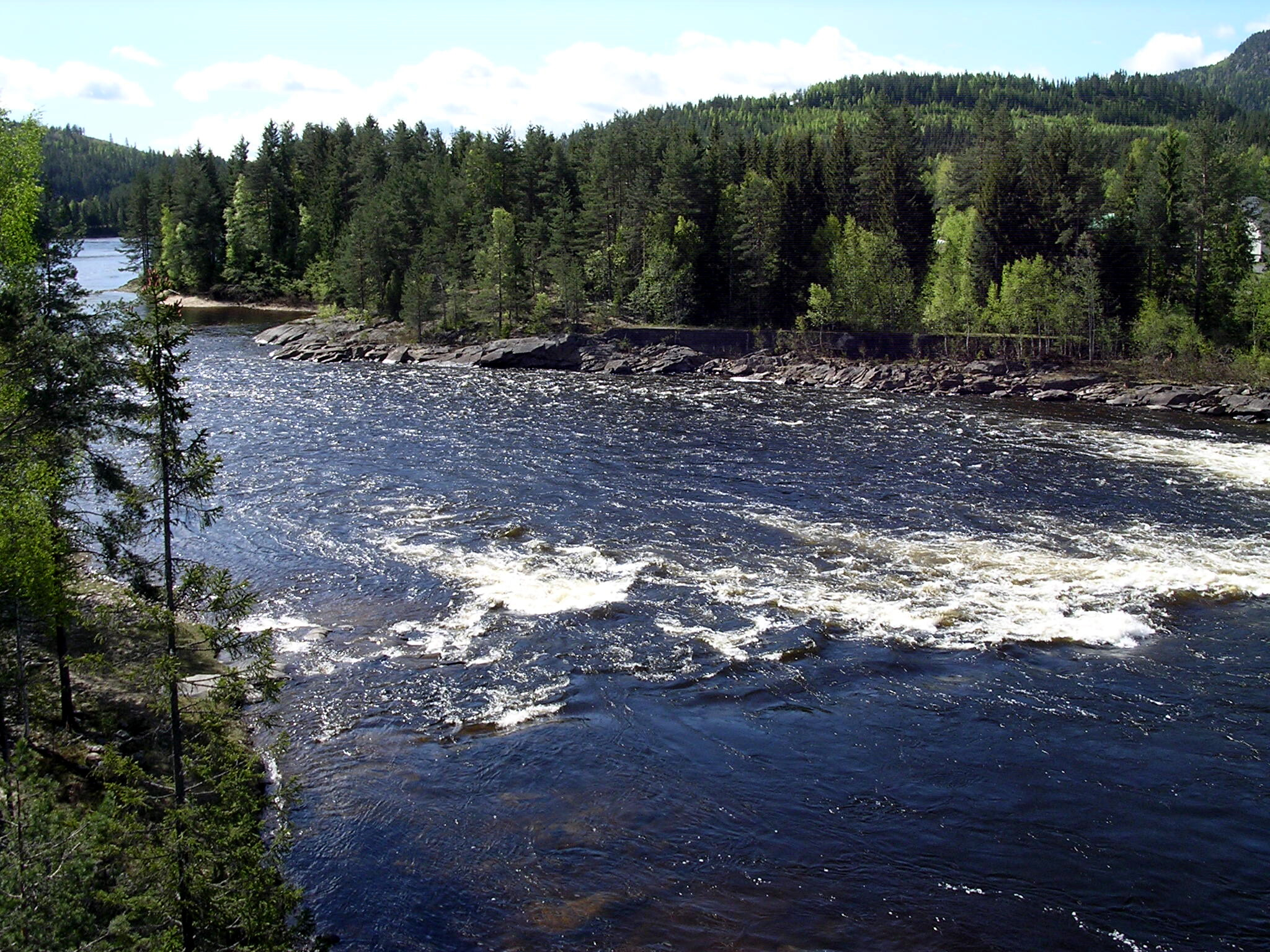 The waterway/river Numedalslågen, 2. longest river in Norway. Picture is taken in Svene, Flesberg.